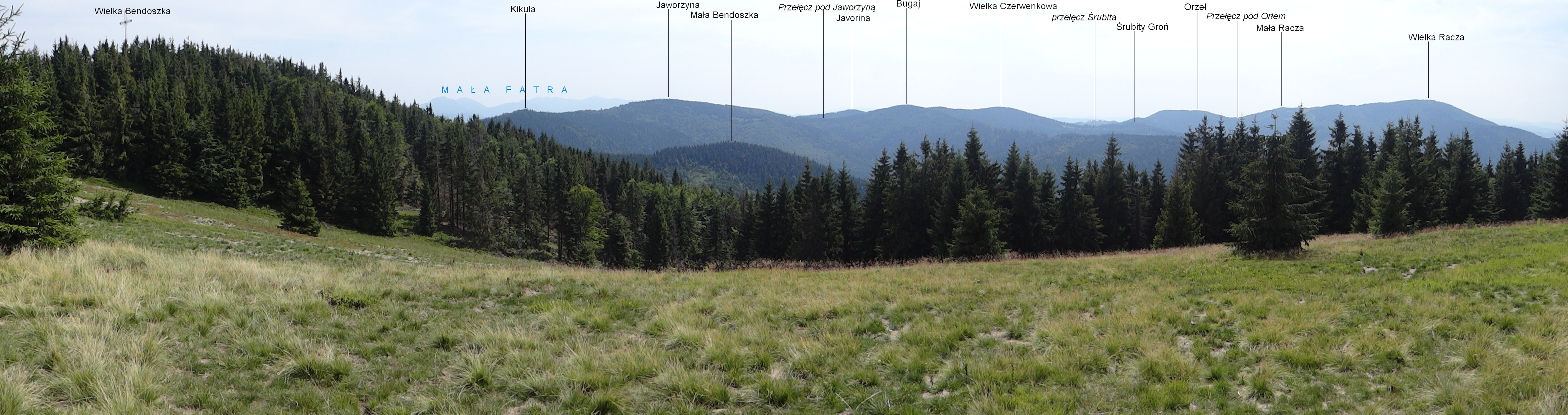 View from Pleskierówka